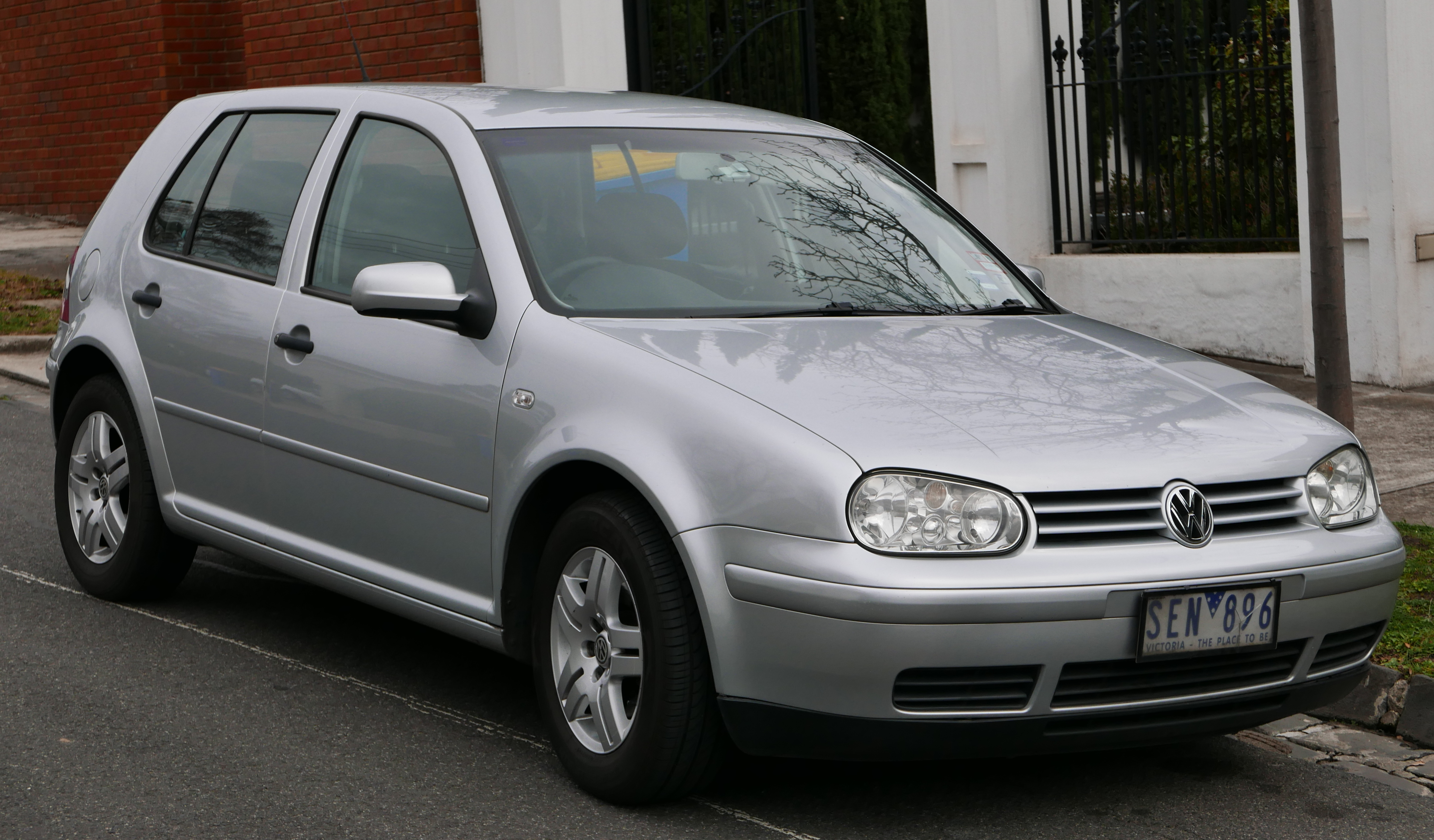 2003 Volkswagen Golf (1J MY03) Generation 2.0 5-door hatchback. Photographed in Kew, Victoria, Australia. Vehicle registration enquiry resultsJurisdictionVictoriaRegistrationSEN896Chassis codeWVWZZZ1JZ3W578507Engine codeAPK823573Compliance date2003-06Year of manufacture2003